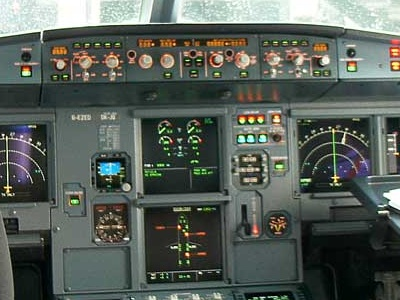 Panel for Altitude Alert; croped from Image:Airbus-319-cockpit.jpg